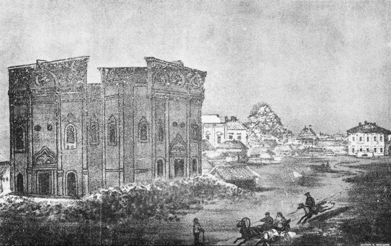 Ruins of the unfinished cathedral in Tomsk after it collapsed 26 July 1850